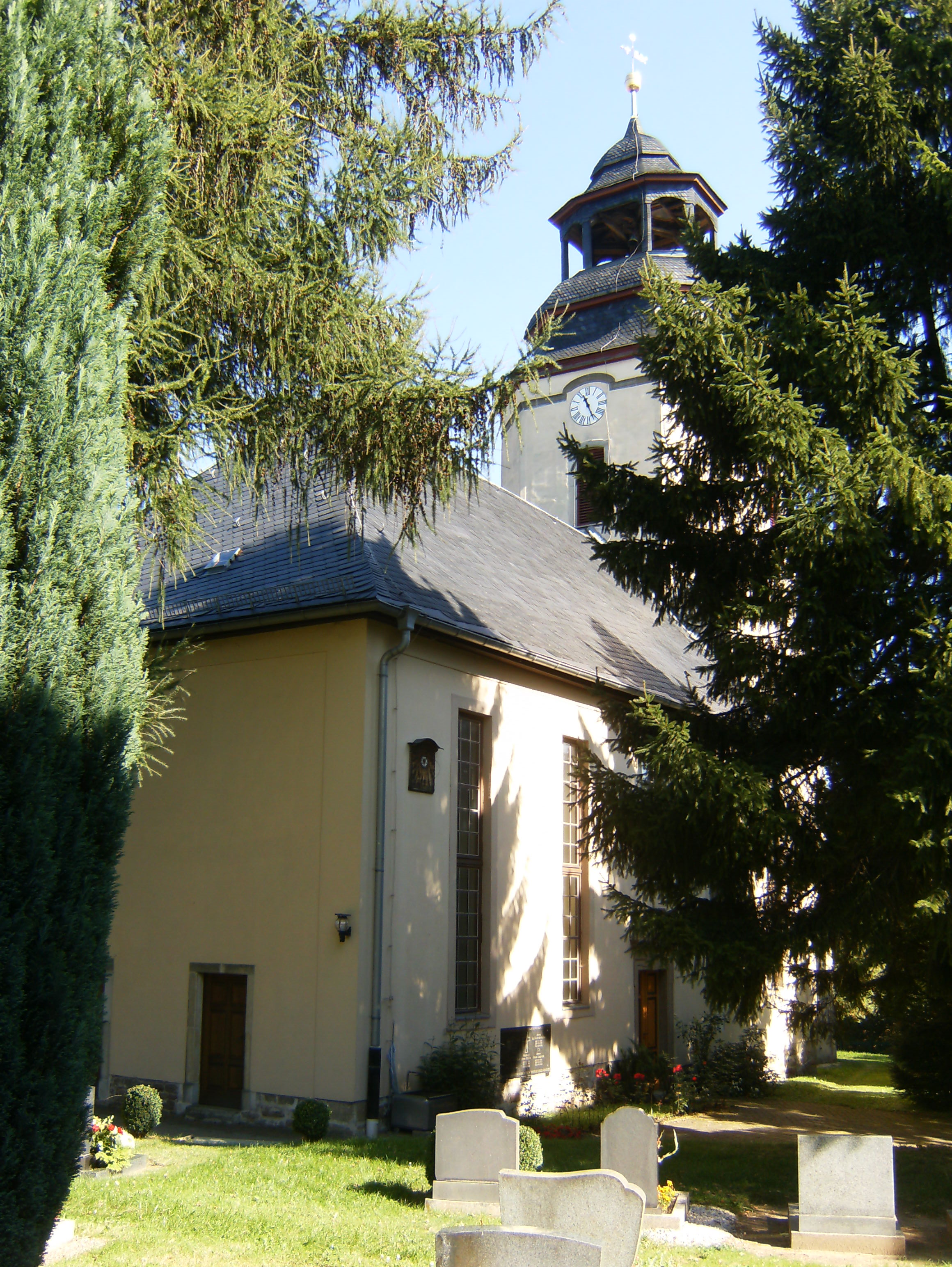 Church in Rüdersdorf, a district of Kraftsdorf in Landkreis Greiz (Thuringia).